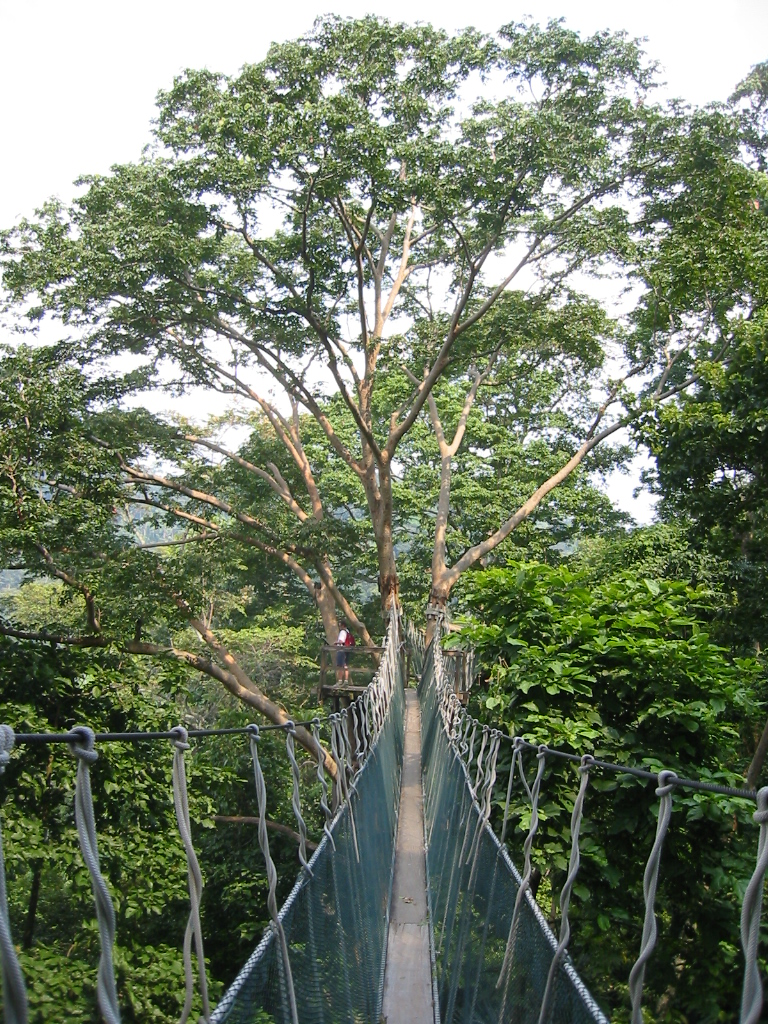 the FRIM canopy walk